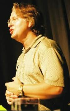 Bruce Sterling at Open Cultures